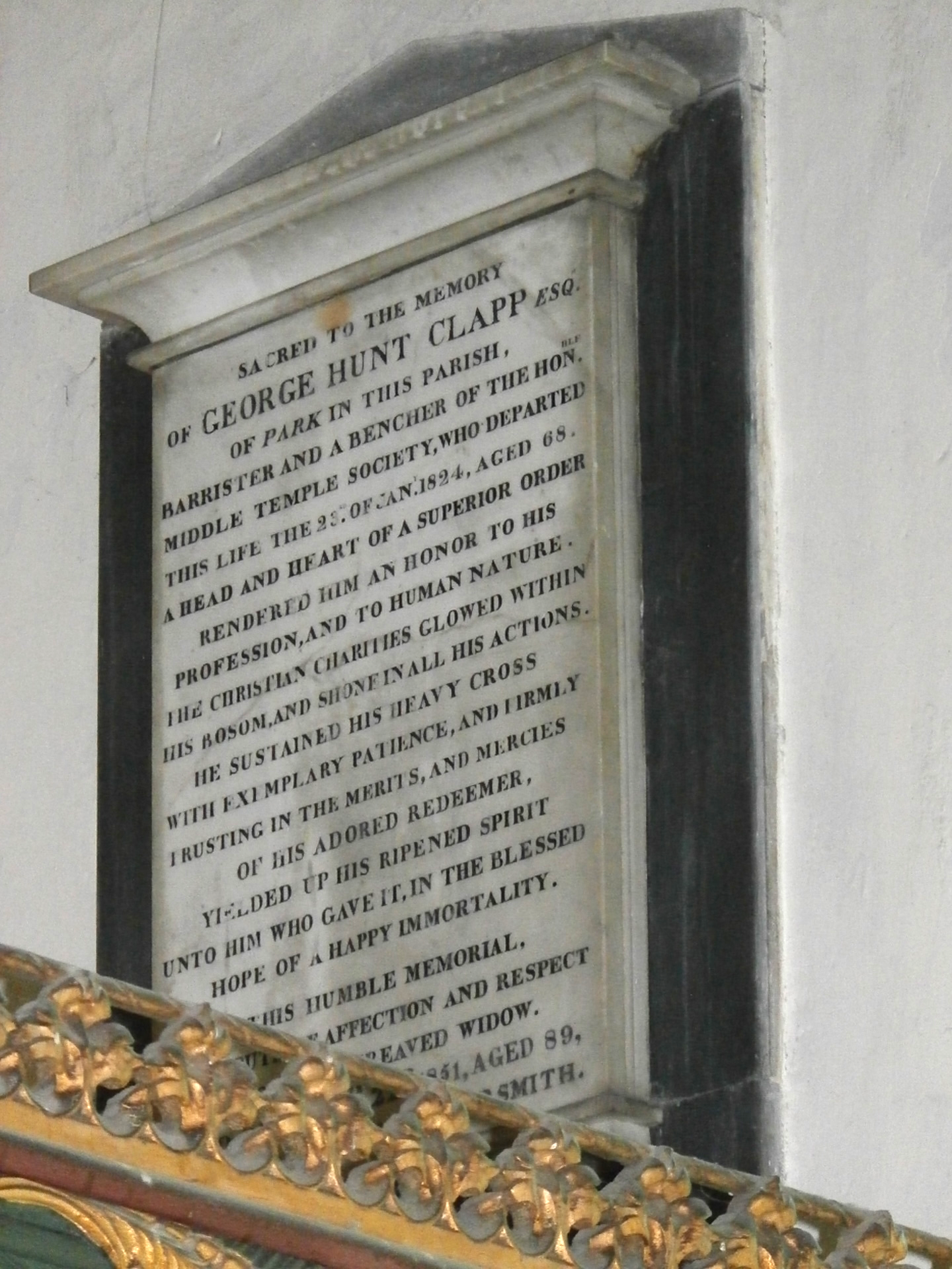 Mural monument to George Hunt Clapp (1756-1824), of Parke, in the parish of Bovey Tracey in Devon, Bovey Tracey Church.